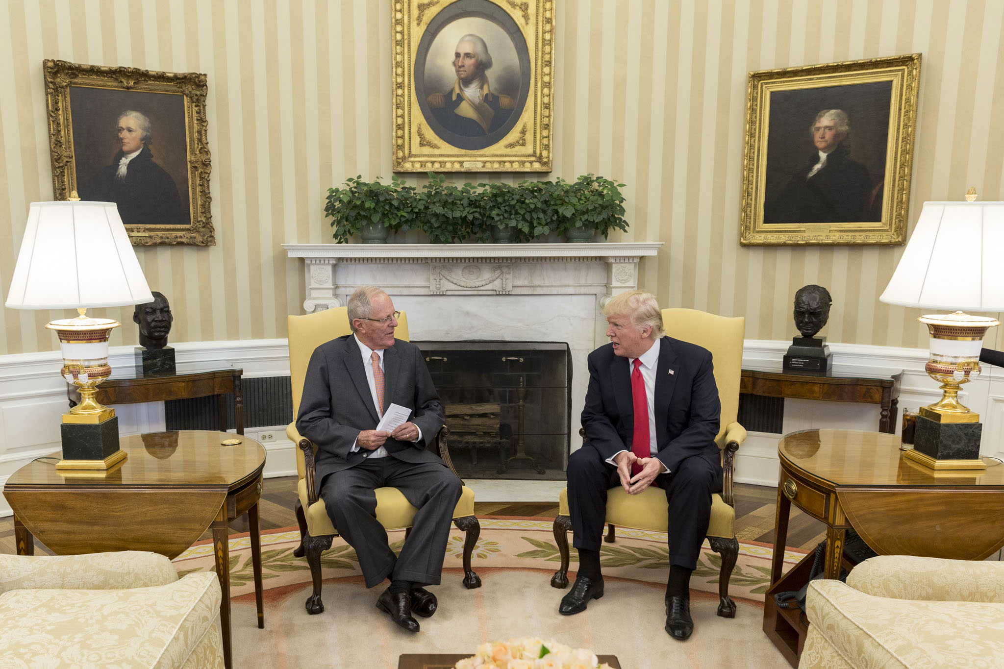 President Donald Trump meets with Peru's President Pedro Kuczynski, Friday, Feb. 24, 2017, in the Oval Office of the White House. (Official White House Photo by Benjamin Applebaum)